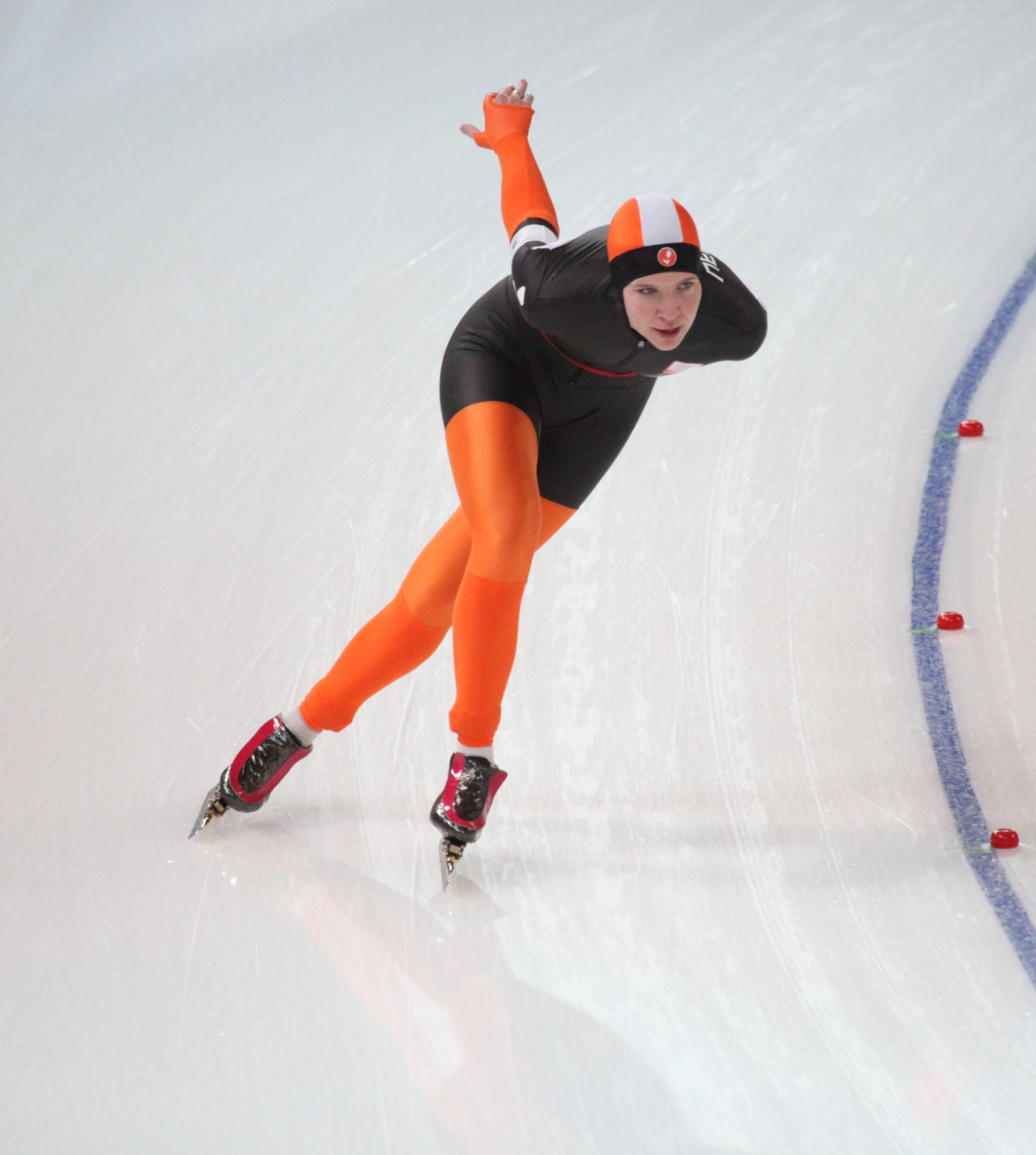 Elma de Vries - 5000m - Speed Skating Olympic Games 2010 VancouverNorsk bokmål: Elma de Vries - 5000m - hurtigløp på skøyter Olympiske leker 2010 Vancouver